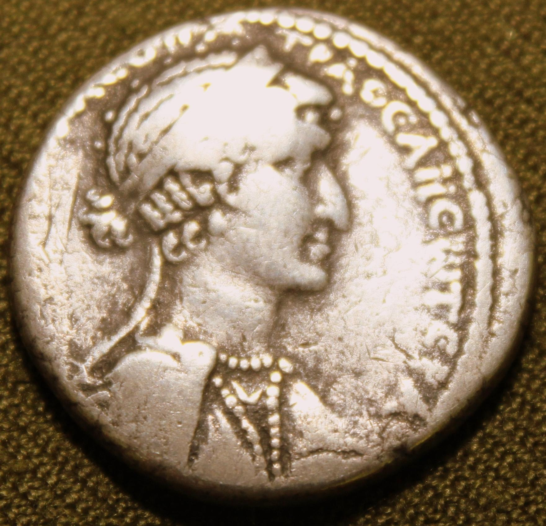 Tetradrachm of Seleucis and Pieria in Syria, with Cleopatra VII on reverse. Compare with RPC# 4095.